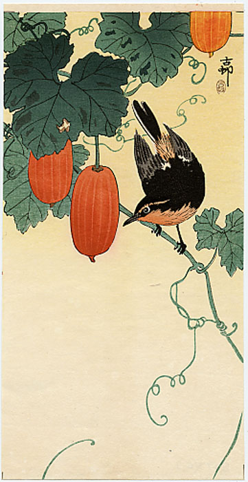 Work by Ohara Koson